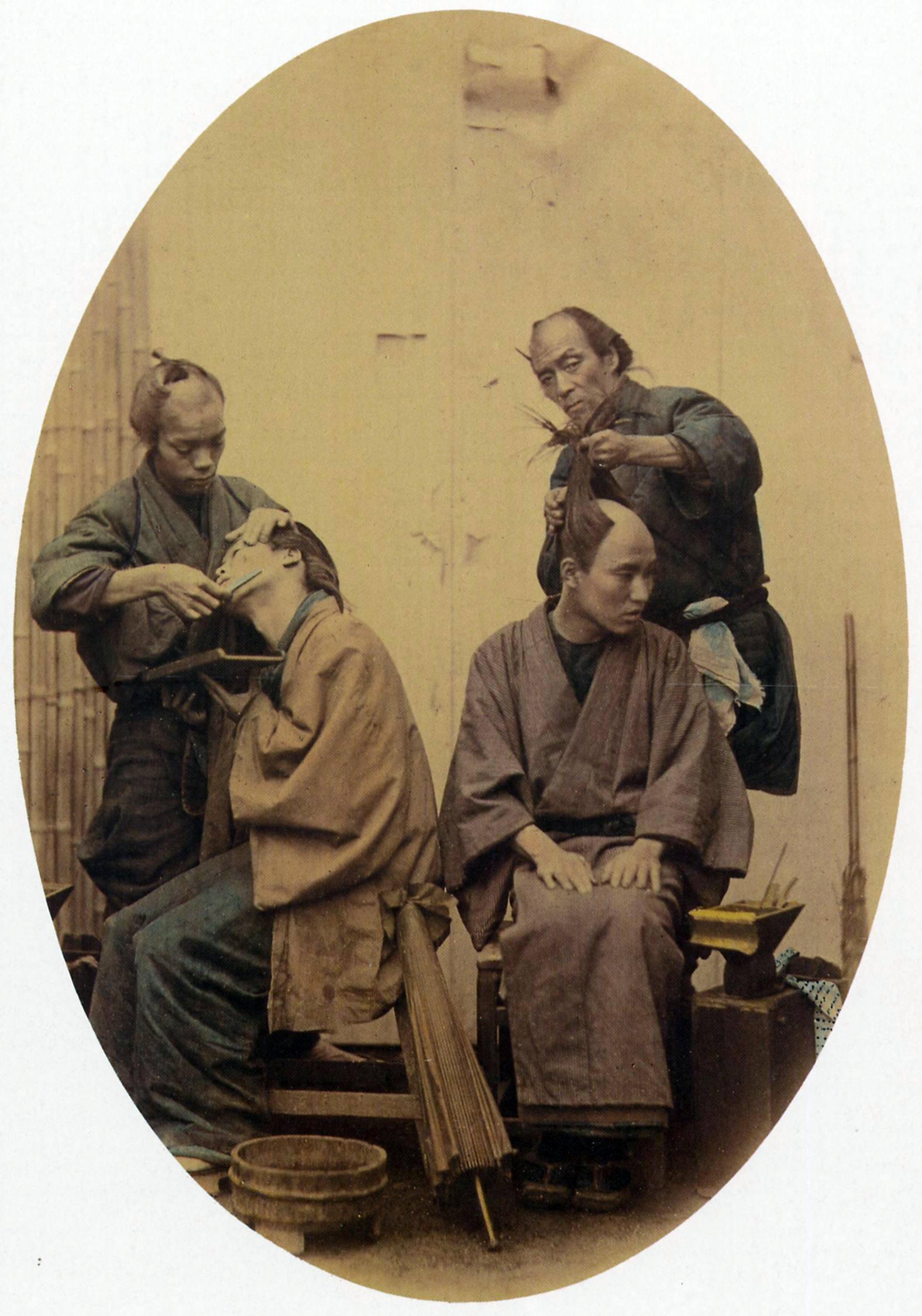 "Japan, At the barber."